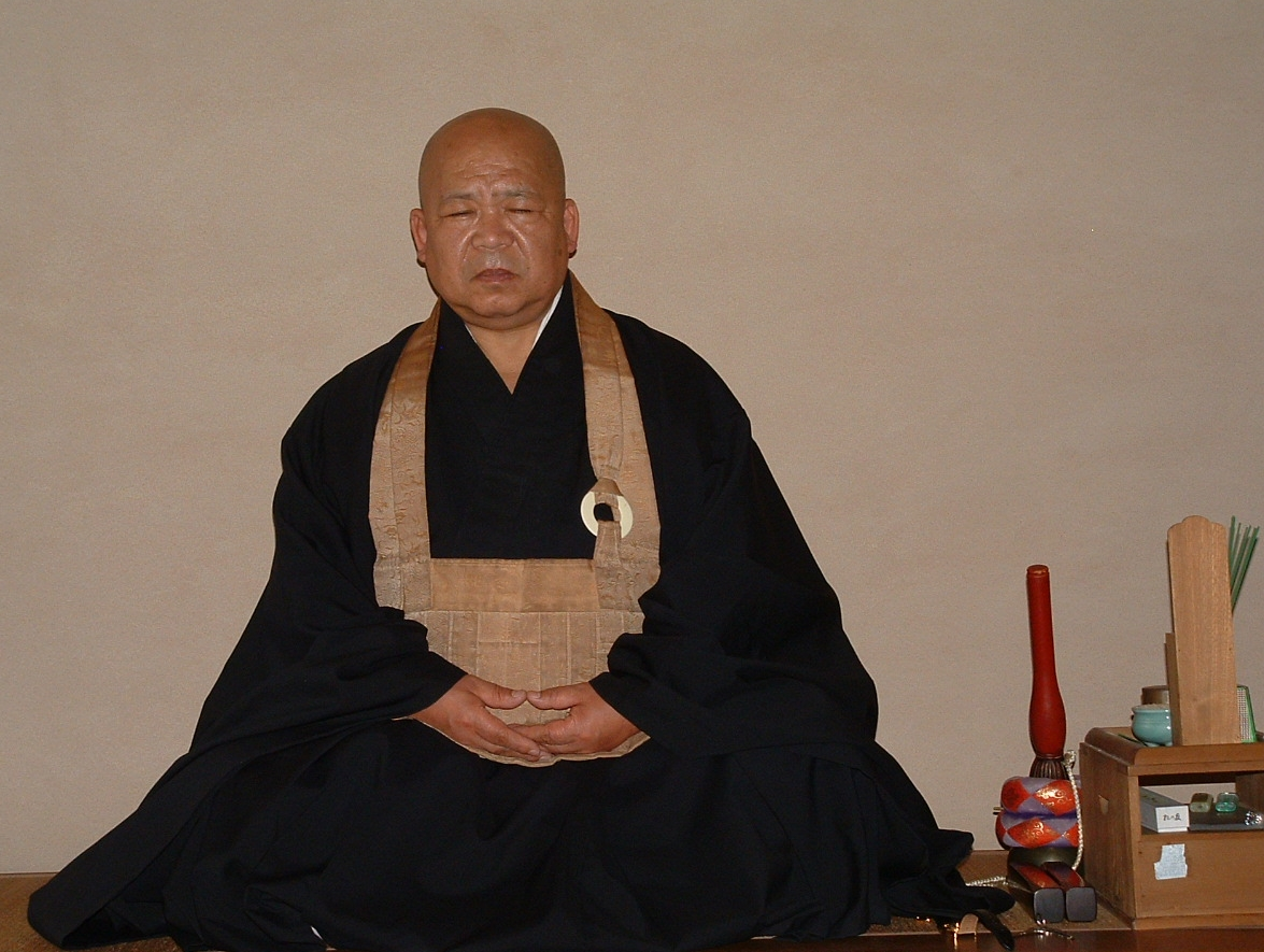 Hozumi Gensho Roshi Photograph by Gakuro